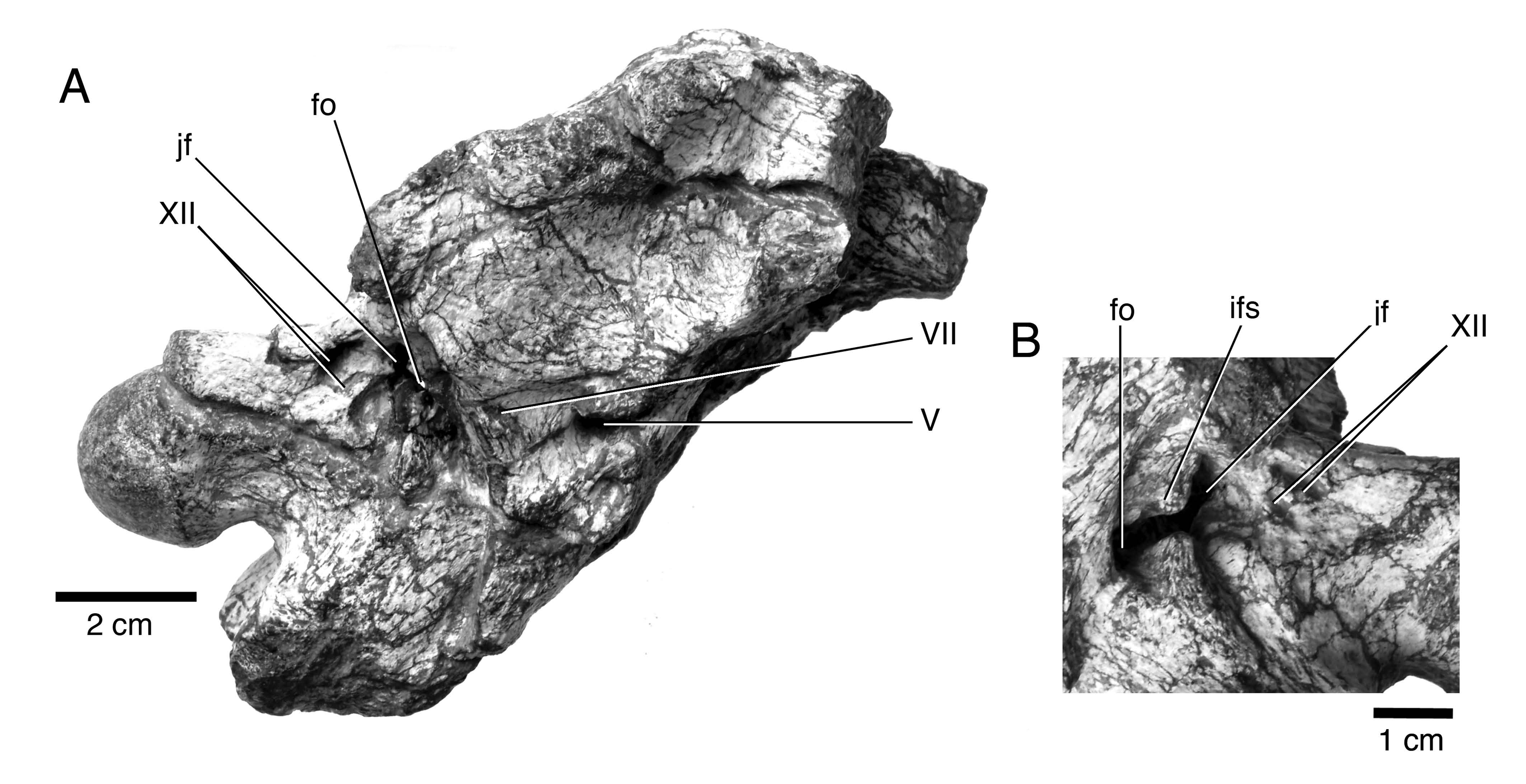 Photographs of the holotype of Nebulasaurus. A, the braincase (holotype) in right lateral view. 17 B, details of the metotic region in left lateral view.